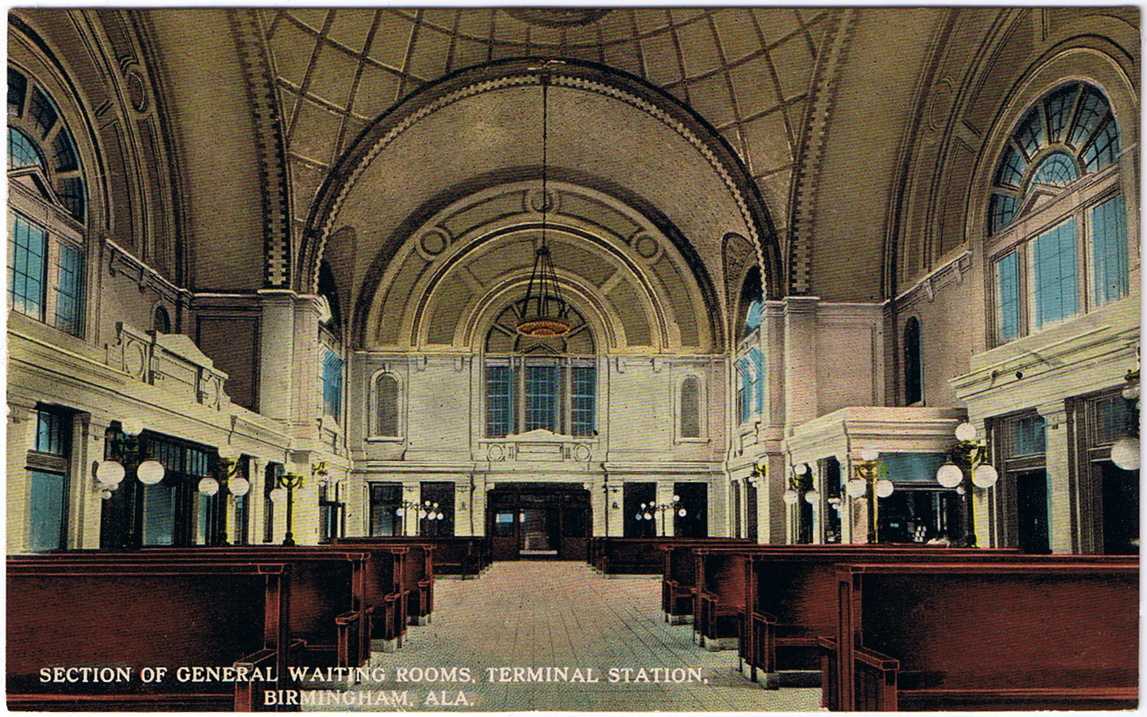 Glossy color postcard entitled, "Section of General Waiting Rooms, Terminal Station, Birmingham, Alabama." Published by Post Card Exchange Publishers, Birmingham, Ala. Made in U.S.A. C.T. Photochrom